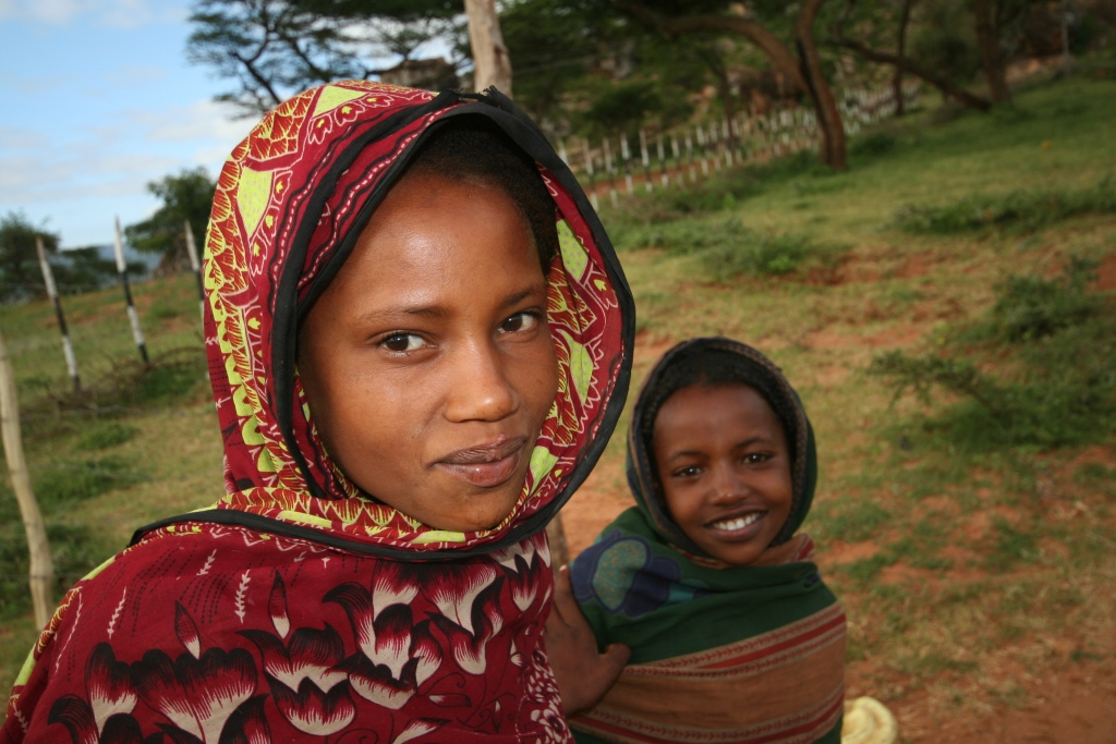 Pastoralist children from the Borana group in Yabelo, Ethiopia. Photo: Leonard Tedd/DFID